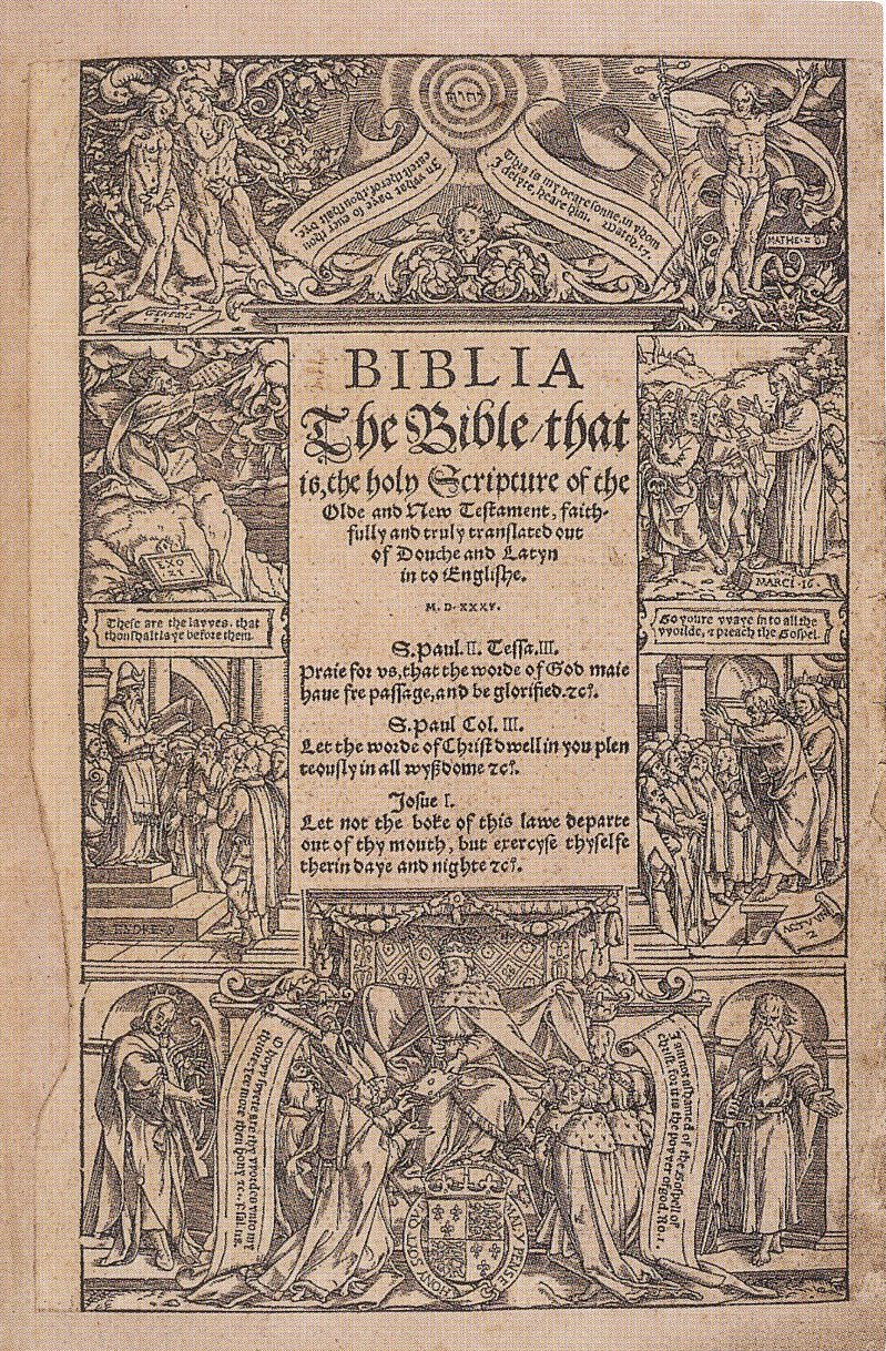 Title page of the Coverdale Bible. Woodcut, 24 × 16.7 cm, British Library, London.